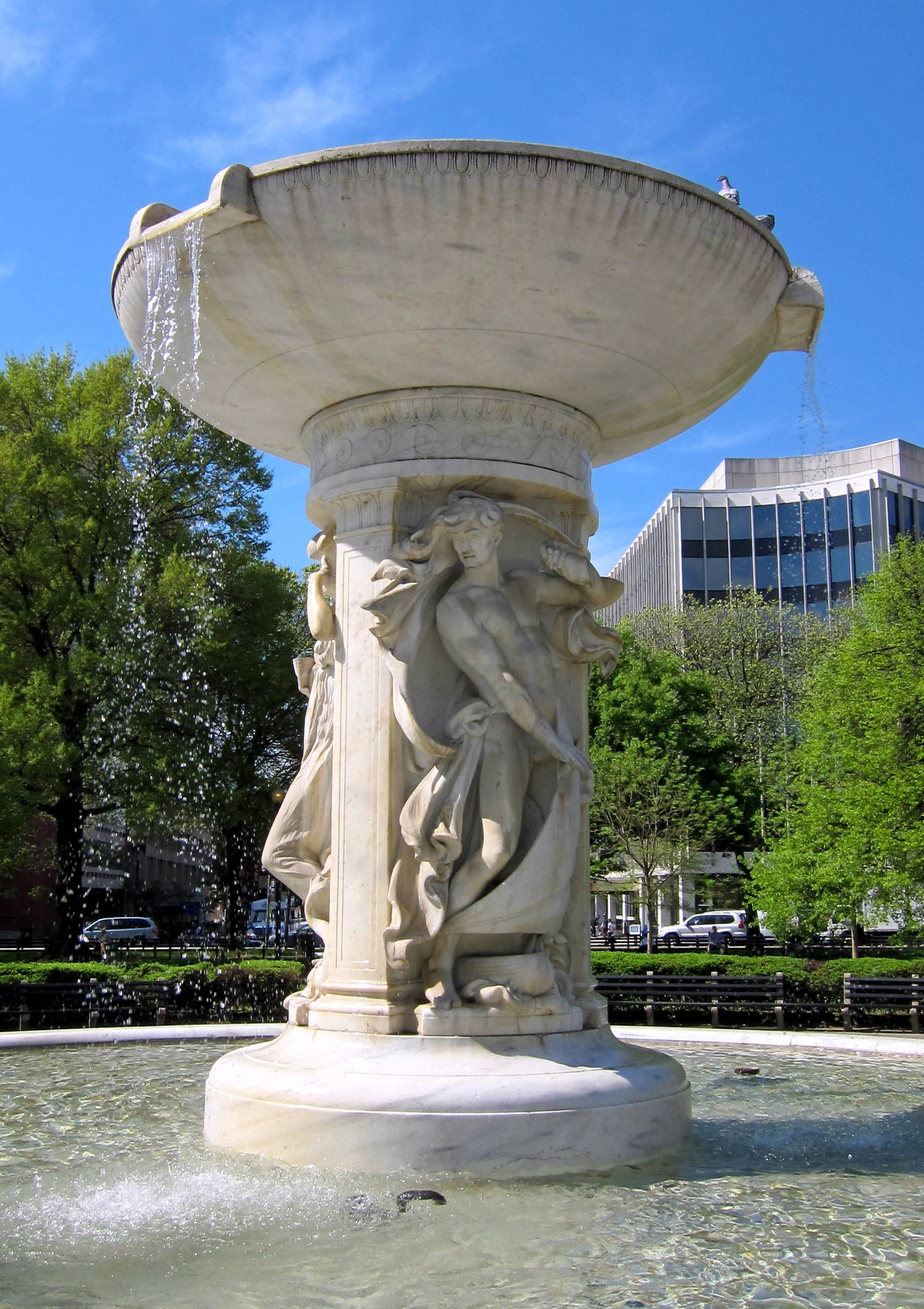 The Dupont Circle fountain, located at the center of Dupont Circle in Washington, D.C. Designed by Henry Bacon and sculpted by Daniel Chester French, the marble fountain is in honor of Rear Admiral Samuel Francis Du Pont. The fountain's shaft features carvings of three classical nudes symbolizing the sea, the stars, and the wind. Sculpted in 1921, the fountain is designated a contributing property to the Dupont Circle Historic District, listed on the National Register of Historic Places in 1978.